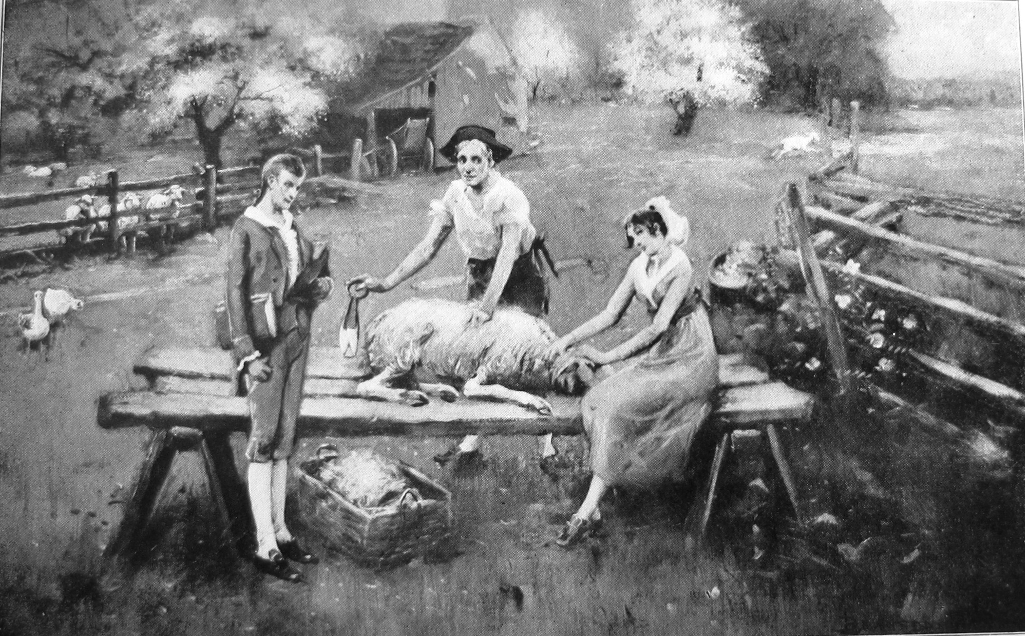 Black-and-white reproduction of Tennessee artist Lloyd Branson's "Sheep Shearing Scene," which depicts the moment when Tennessee senator Hugh Lawson White (left) first met his wife, Elizabeth Carrick. Carrick's father, Samuel Carrick, is shearing wool from a sheep.